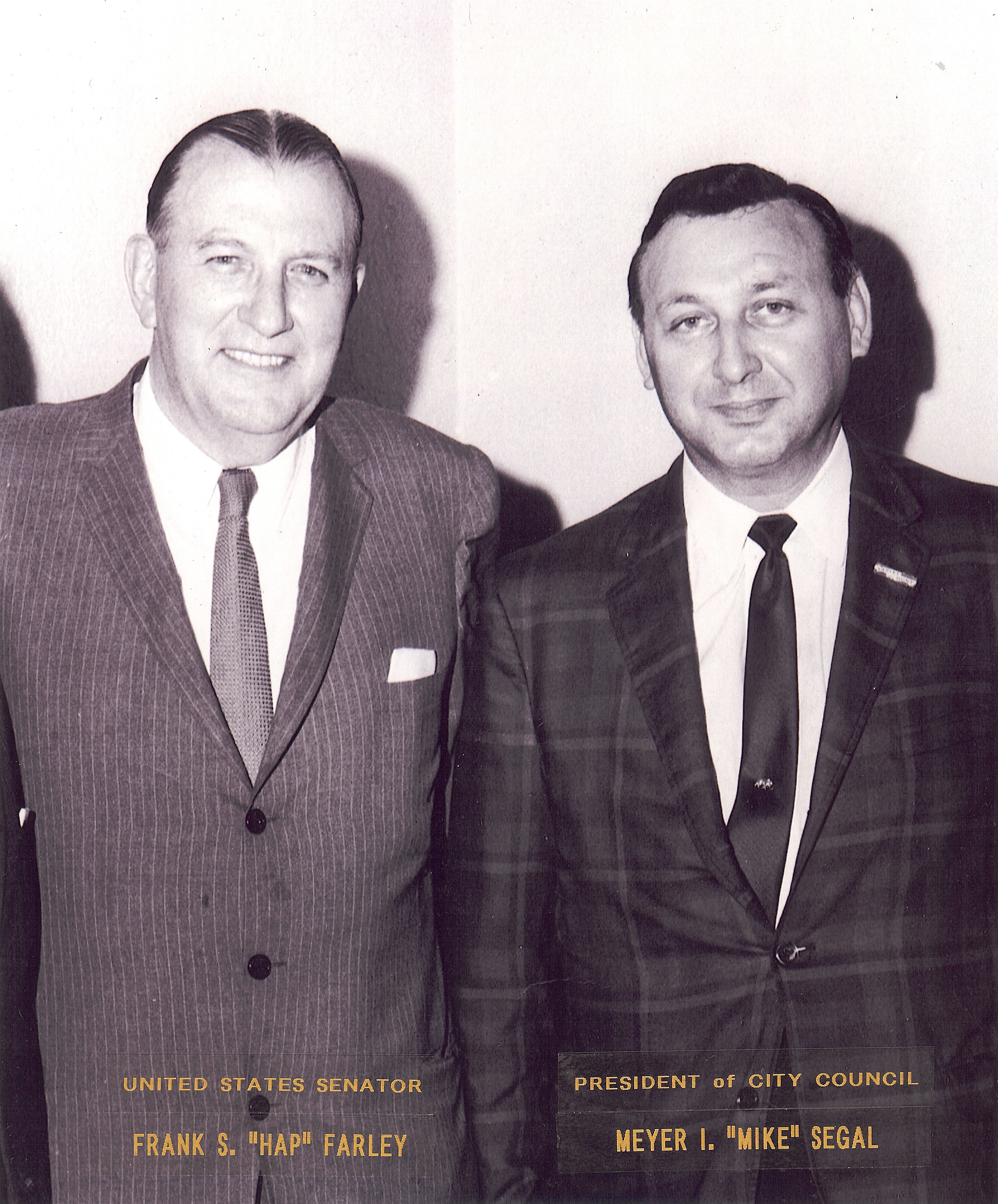 United States Senator Frank "Hap" Farley with President of Council Meyer (Mike) Segal